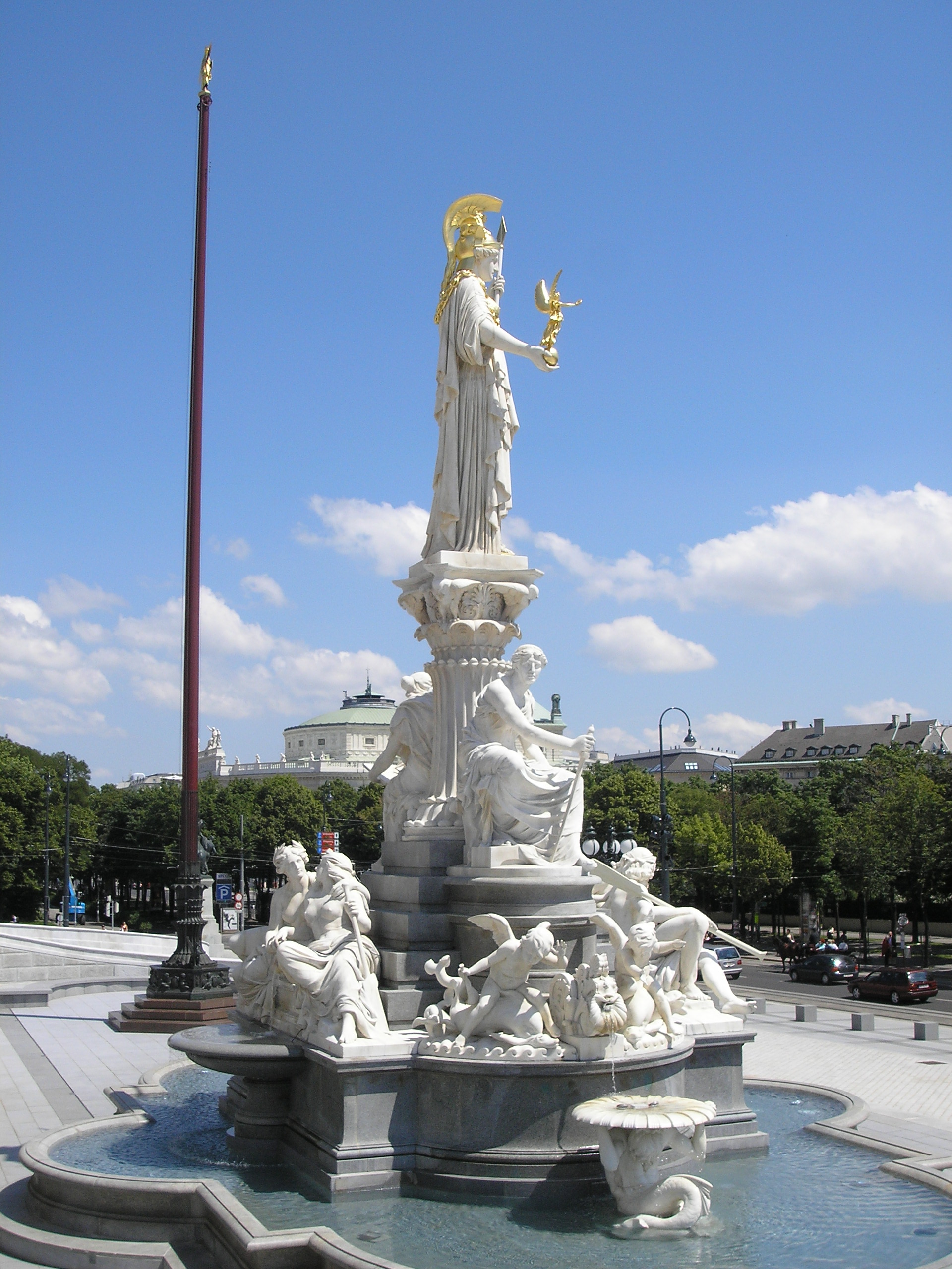 Image of the Austrian parliament building (Reichsratsgebäude), constructed by Baron Theophil von Hansen in the neo-classic style.